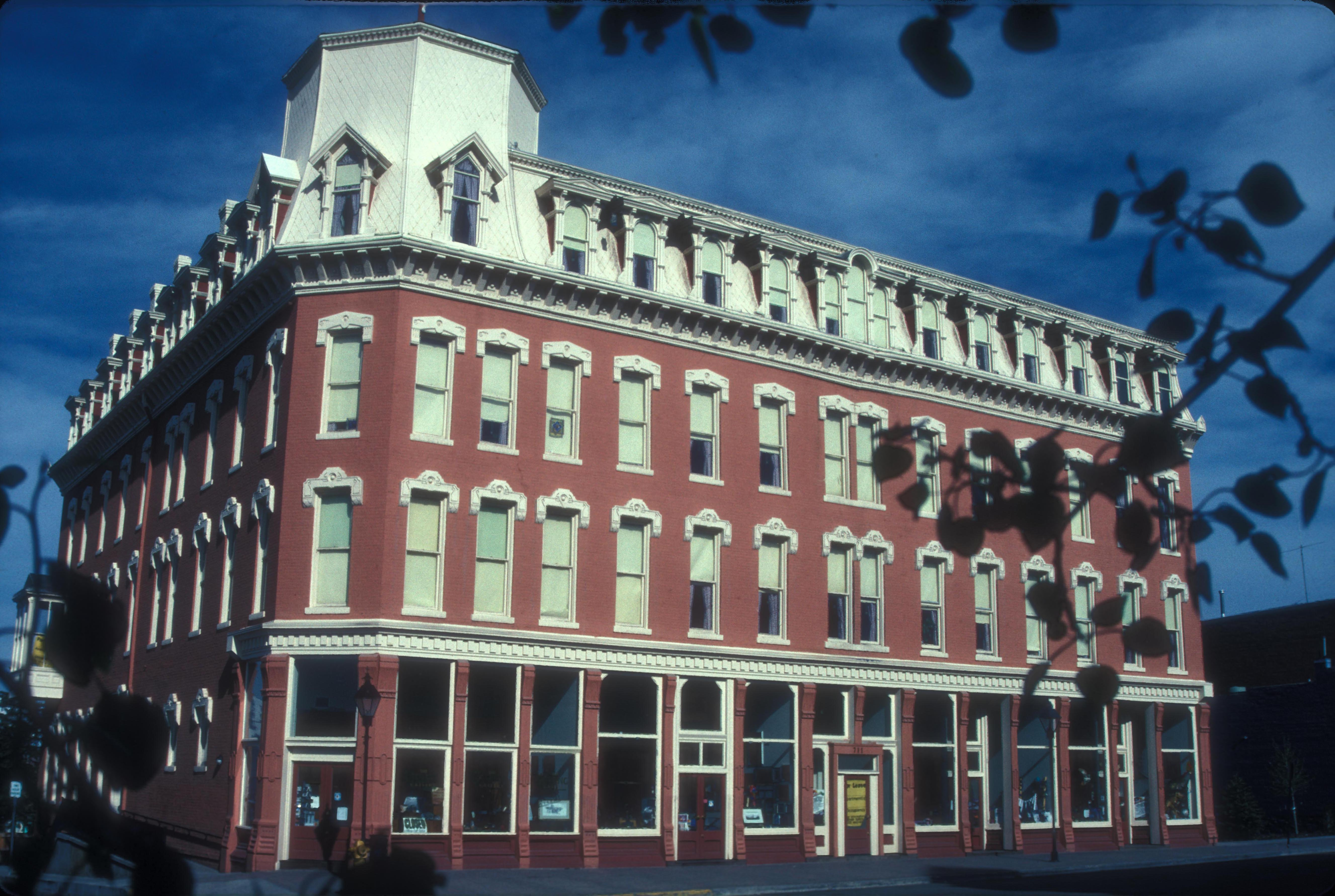 BUILT DURING THE TWO YEAR PERIOD OF 1883 TO 1885, THIS FOUR STORY BRICK BUILDING WAS DESIGNED BY NOTED ARCHITECT OF THE PERIOD, GEORGE KING. THE UPPER FLOORS ARE NOW APARTMENTS. IT IS PART OF THE LEADVILLE HISTORIC DISTRICT